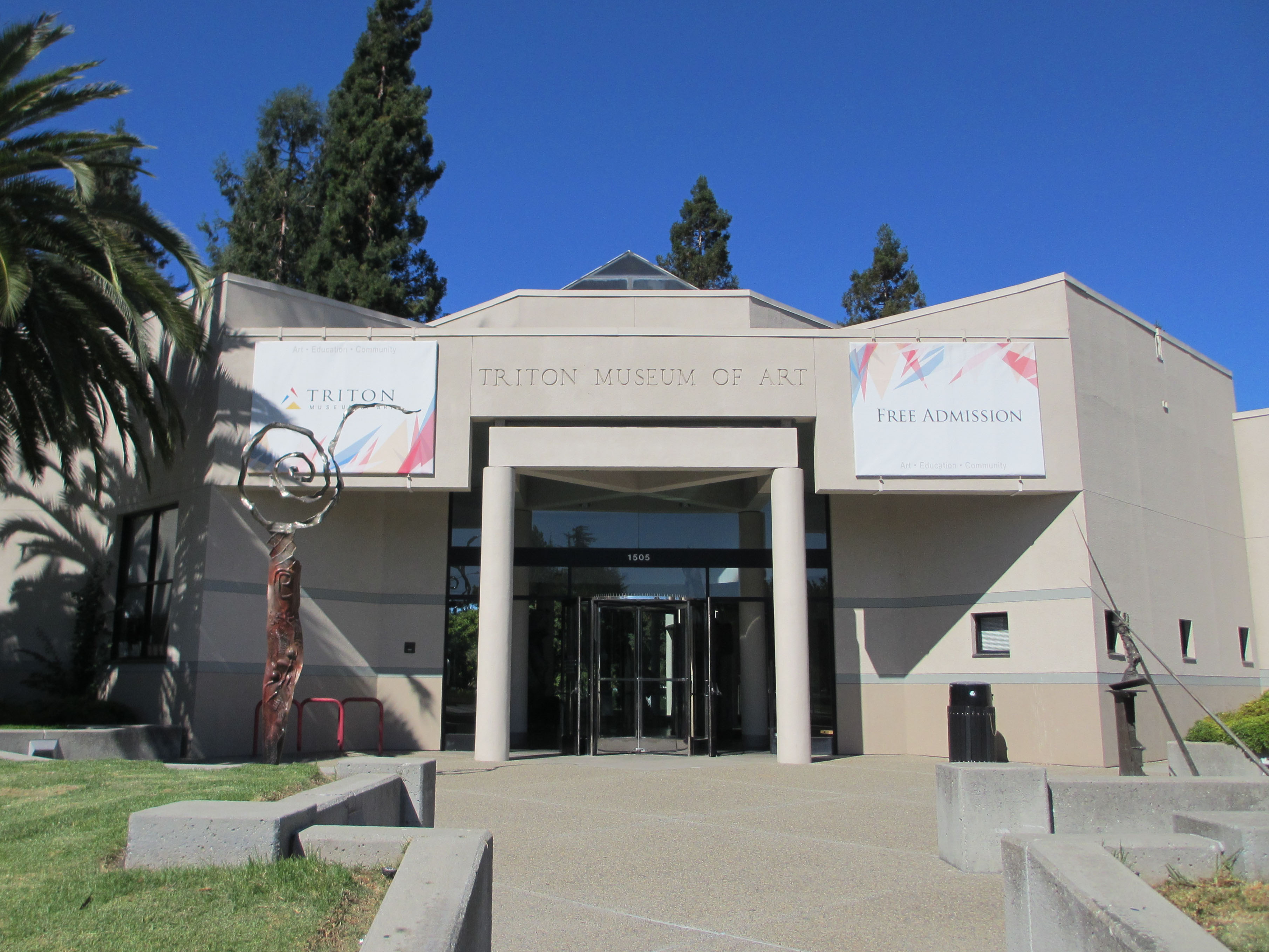 A picture of the museum